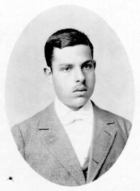 Abraham Shalom Yahuda (1877–1951) in his youth